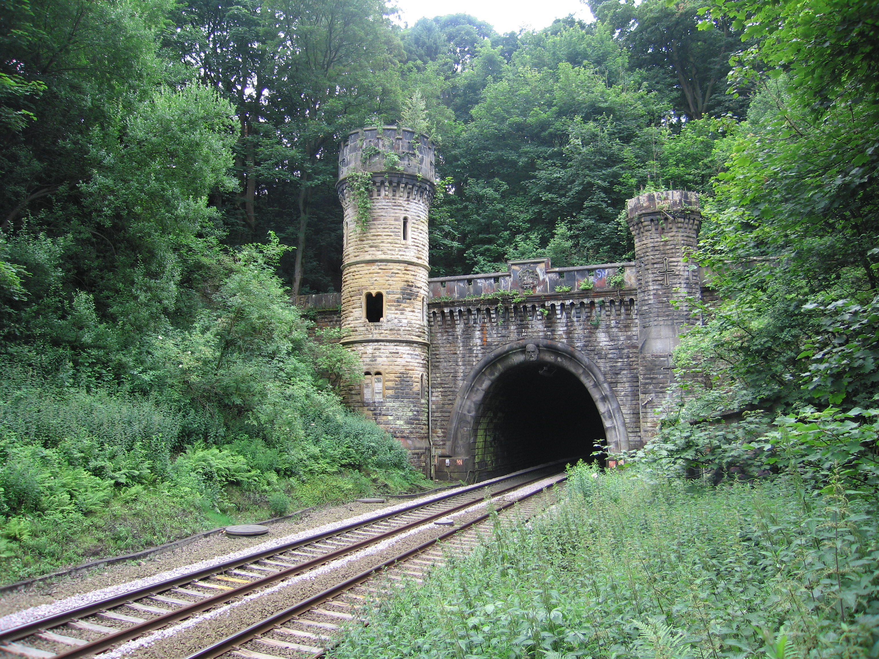 Bramhope Tunnel north portal, built 1845-1849, Harrogate Line, near Bramhope, West Yorkshire, England.